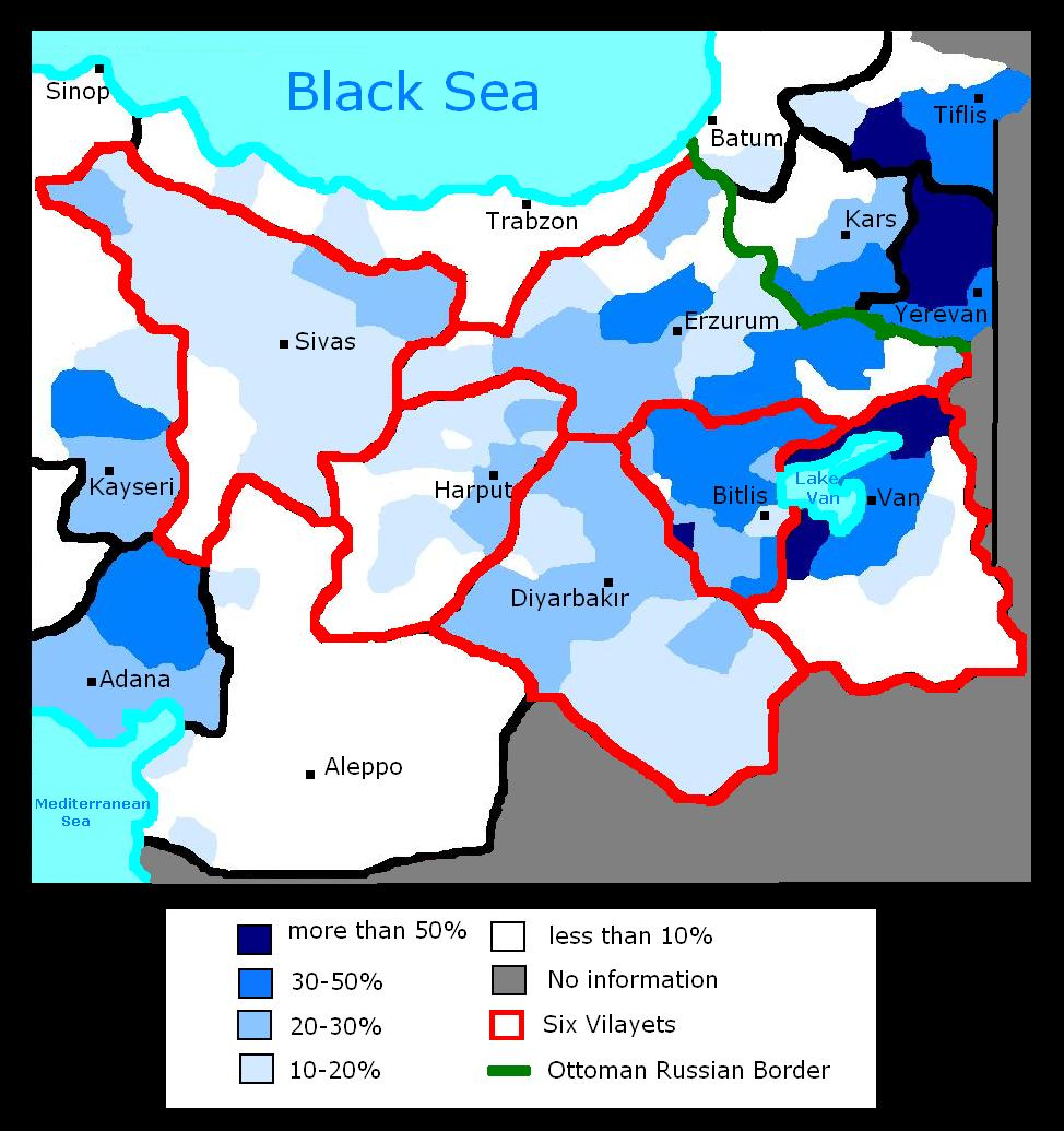 Map of the Armenian population in the Six Vilayet in 1896. According to the information of this map